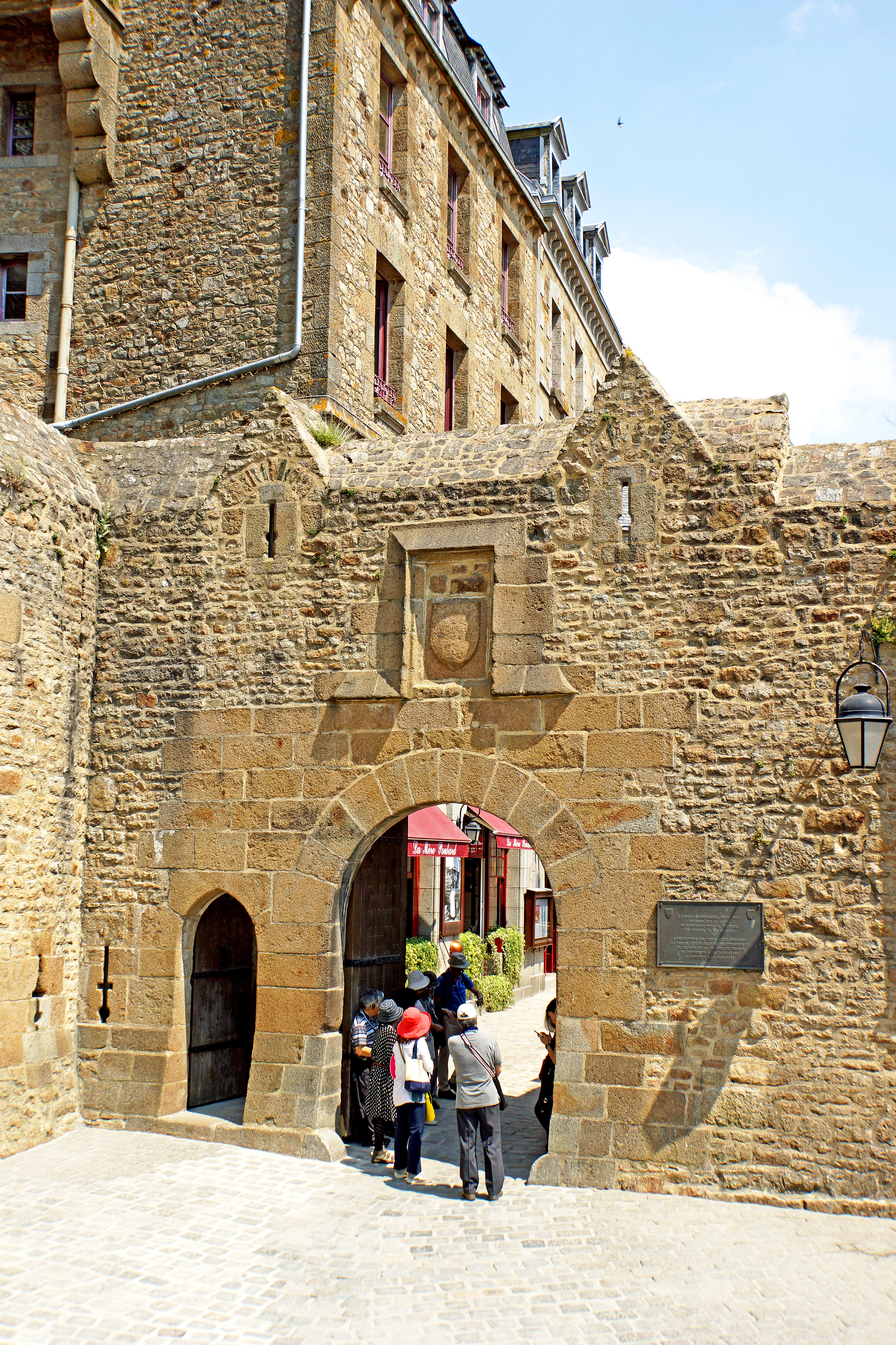 PLEASE, NO invitations or self promotions, THEY WILL BE DELETED. My photos are FREE to use, just give me credit and it would be nice if you let me know, thanks. The main gate into the site. Once through Mont Saint-Michel’s wooden gateway and are on its main street – Grande Rue, narrow, steep and winding its way to the abbey, now over a thousand years old, Benedictine monks began to construct it when they settled on the islet in 966.